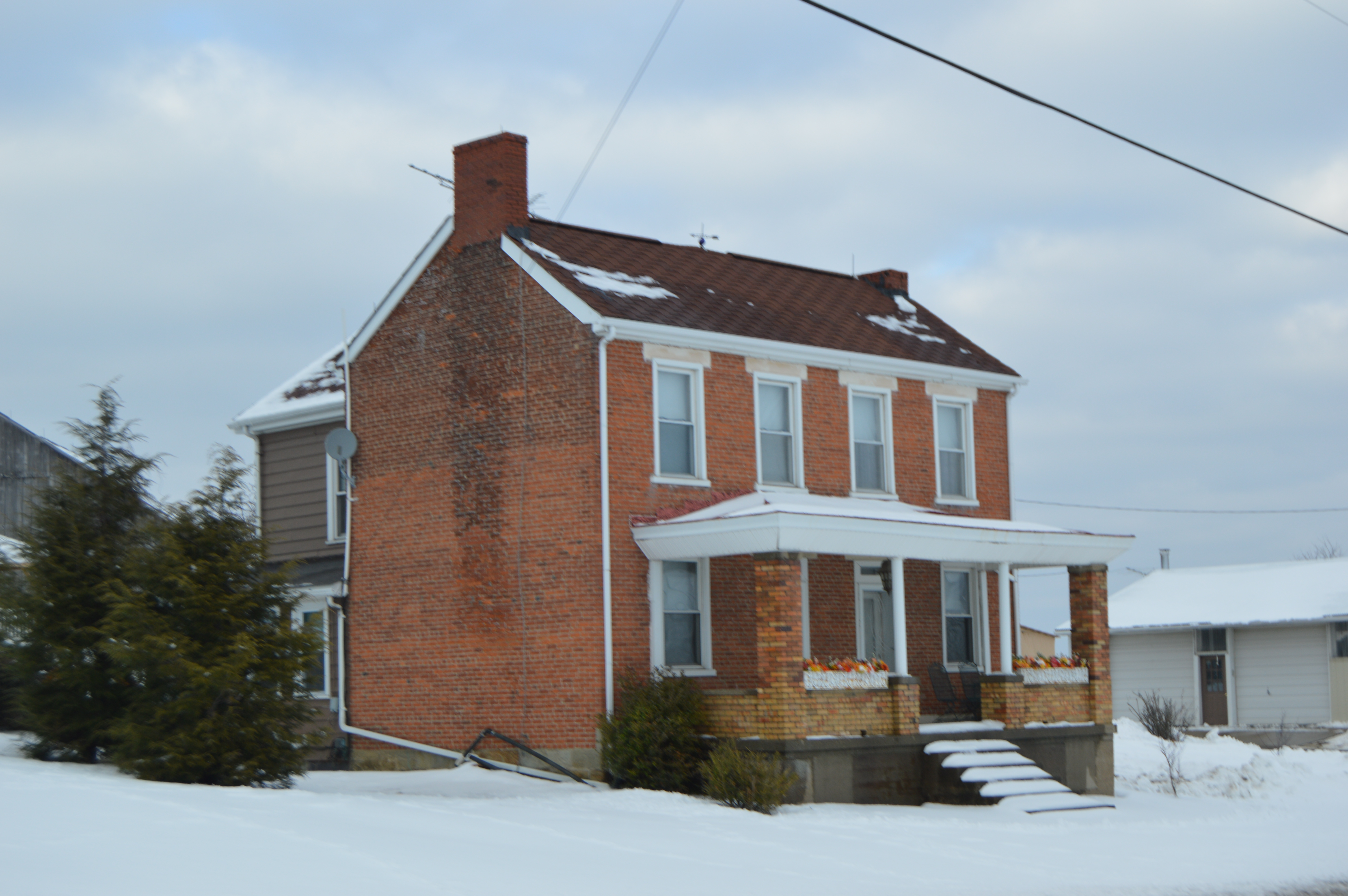 Western side and front of a farmhouse on the northern side of State Route 151 immediately east of Smithfield in Smithfield Township, Jefferson County, Ohio, United States.